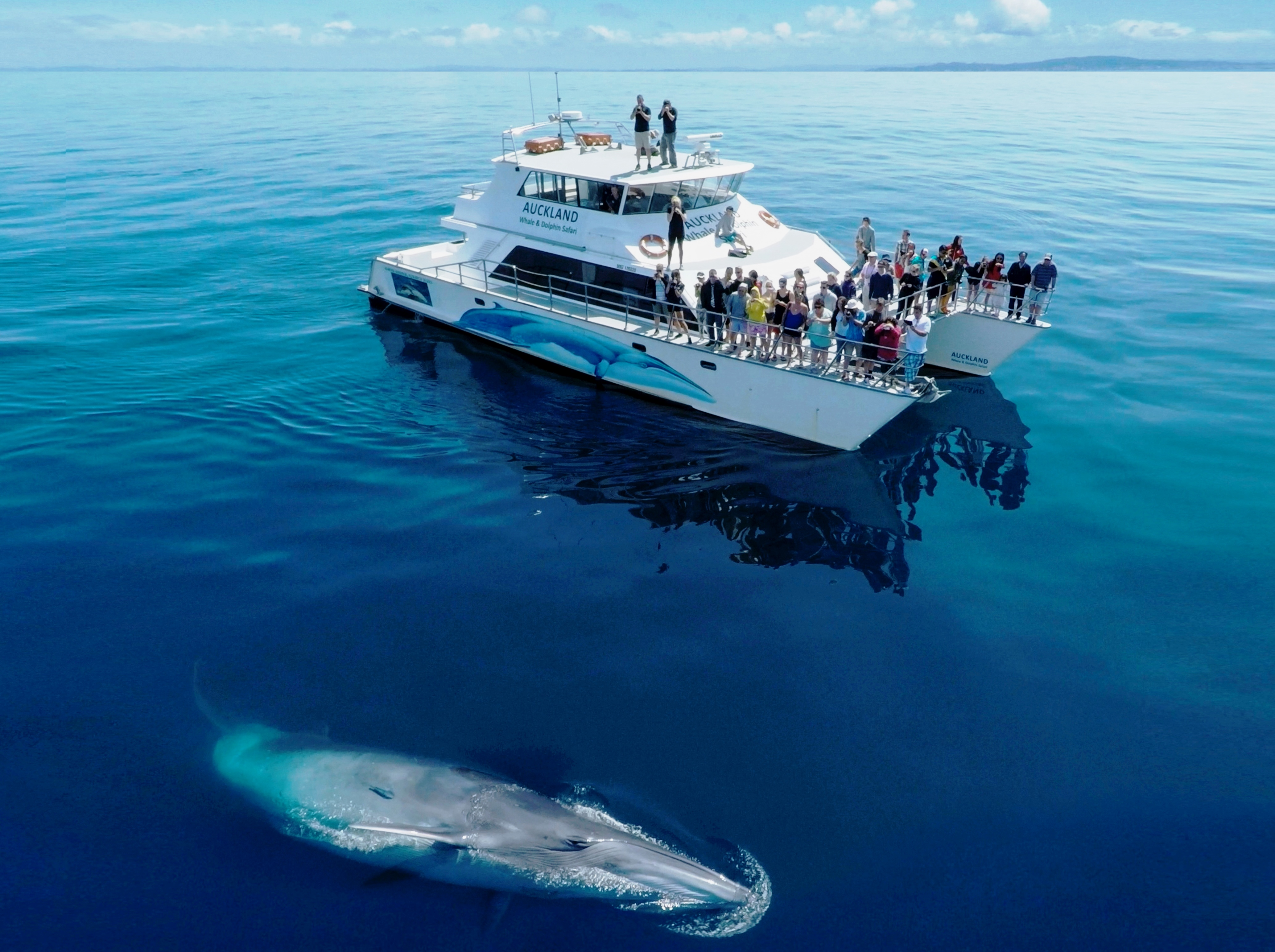 A Bryde's Whale is viewed from Auckland Whale & Dolphin Safari's research vessel the 'Dolphin Explorer' during a whale watching trip into the Hauraki Gulf Marine Park.